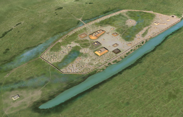 Artists conception of the late phase of the Kincaid Mounds Site circa 1300 CE. Kincaid is a Middle Mississippian Culture multi-mound archaeological site site located in Massac and Pope Counties, Illinois, USA. By this phase of the sites history the western portion (lower left in illustration) had been abandoned and the population was centered in the middle section of the site. All rights held by the artist, Herb Roe © 2017.